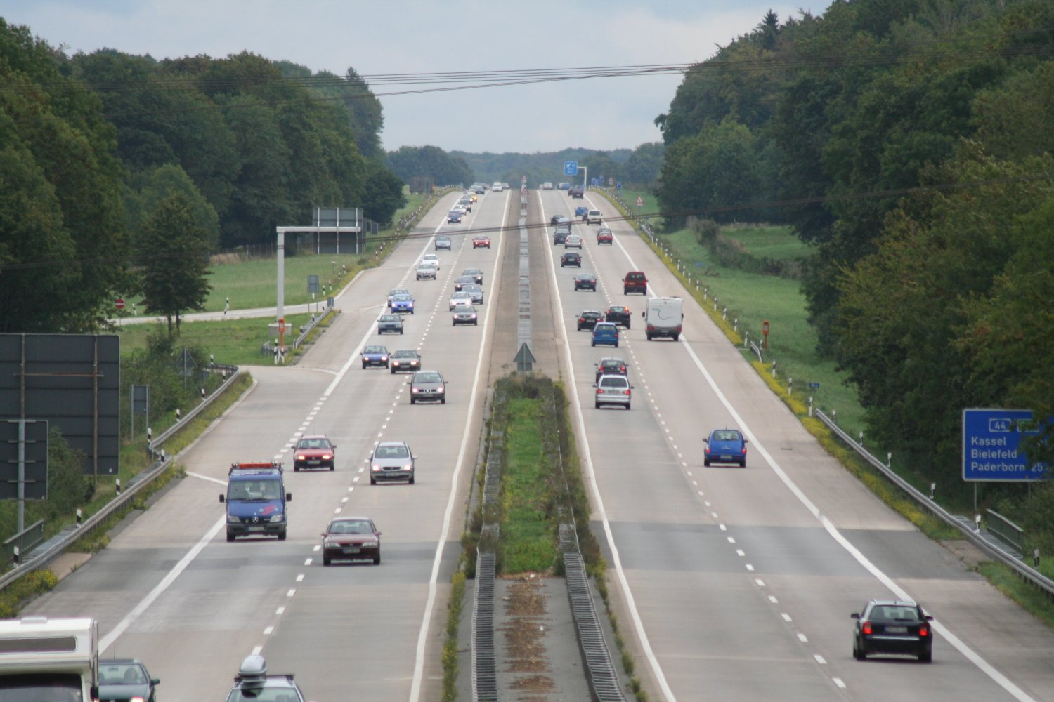 Autobahn-Behelfsflugplatz, part of german Autobahn which was designed for use as a military landing strip (A 44 looking east towards junction Büren)